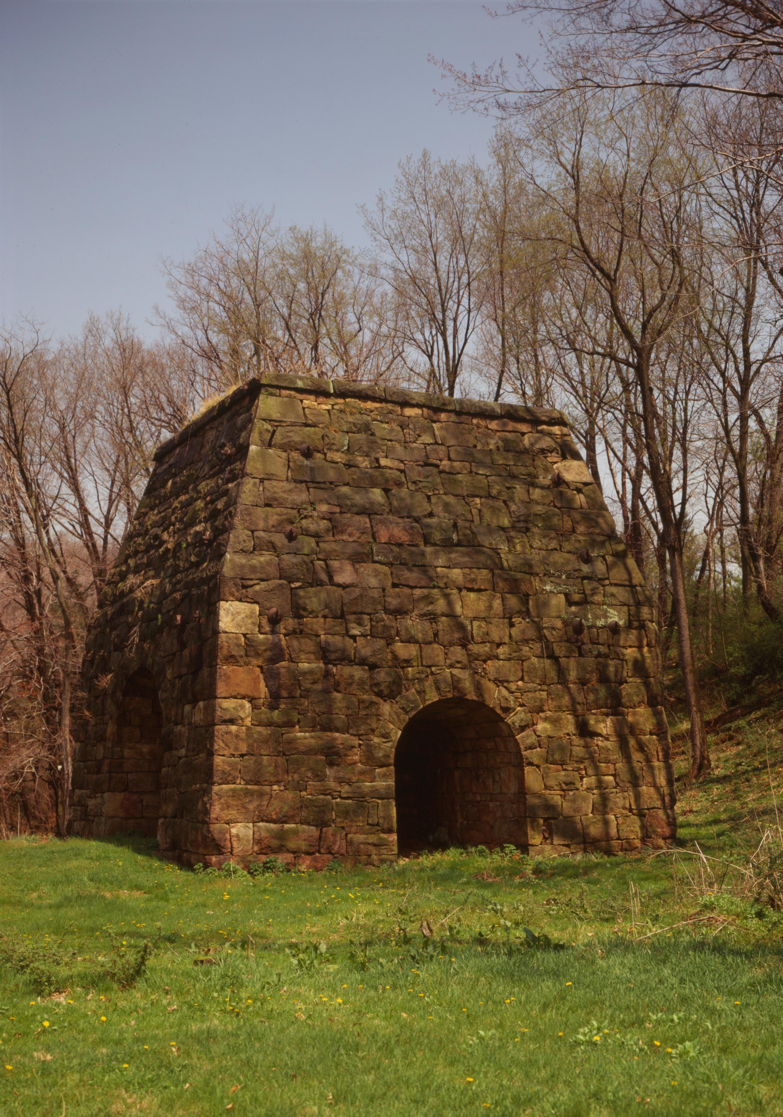 Front of the Laurel Hill Furnace, located along Baldwin Run southeast of New Florence in St. Clair Township, Westmoreland County, Pennsylvania, United States. Built in 1845, the furnace is listed on the National Register of Historic Places.